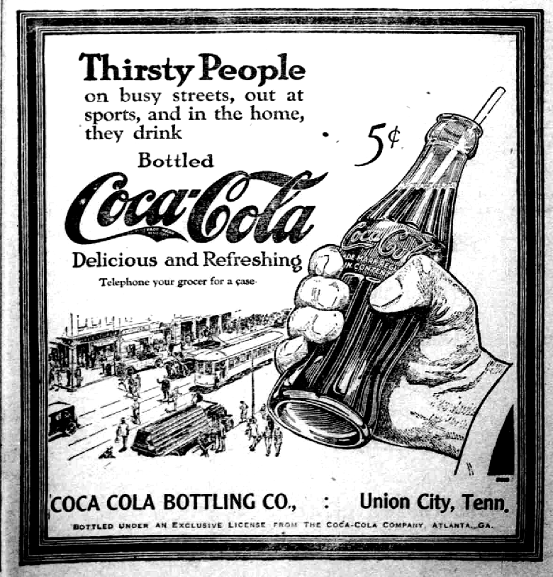 Coca-Cola ad for bottled Coke from 1922. Lightened and converted with GIMP.